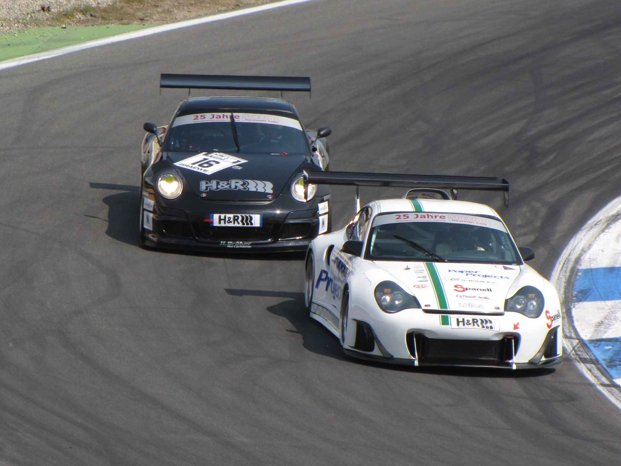 Jürgen Alzen und René Snel fighting for Positions at STT race Hockenheim 2010